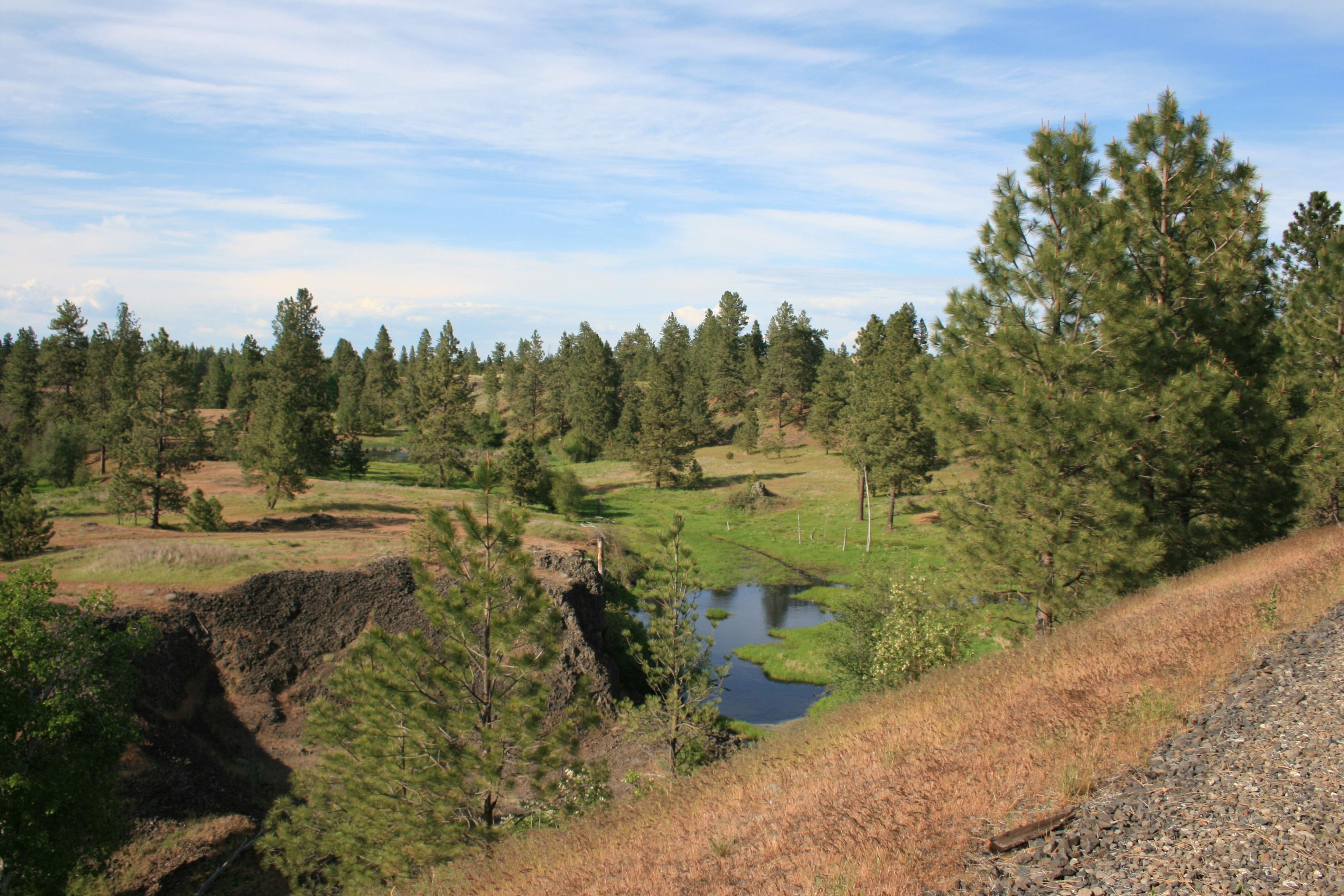 Photo of the Columbia Plateau Trail — a rail trail in a Washington State Park in Spokane County. On the Columbia Plateau in Washington State.